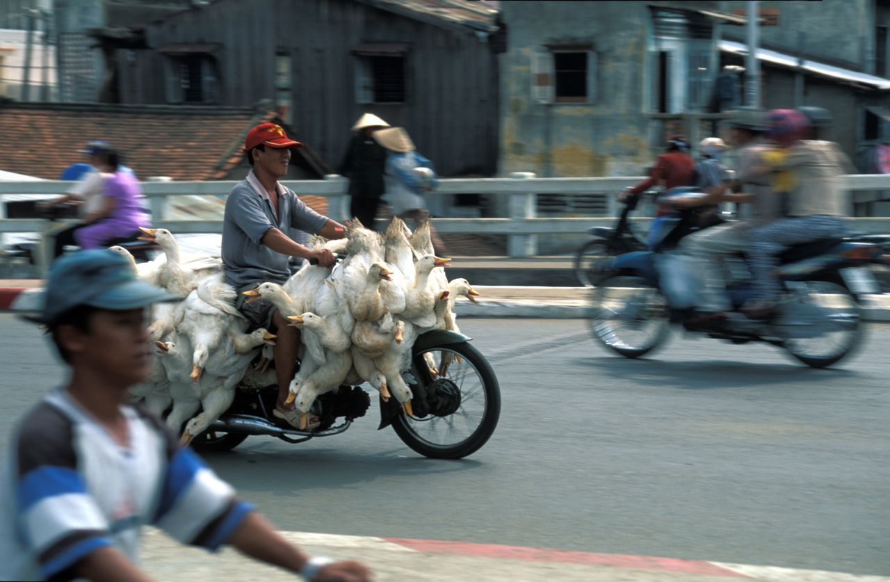 Animal transport as used in Vietnam. Ho Chi Minh City, Vietnam.